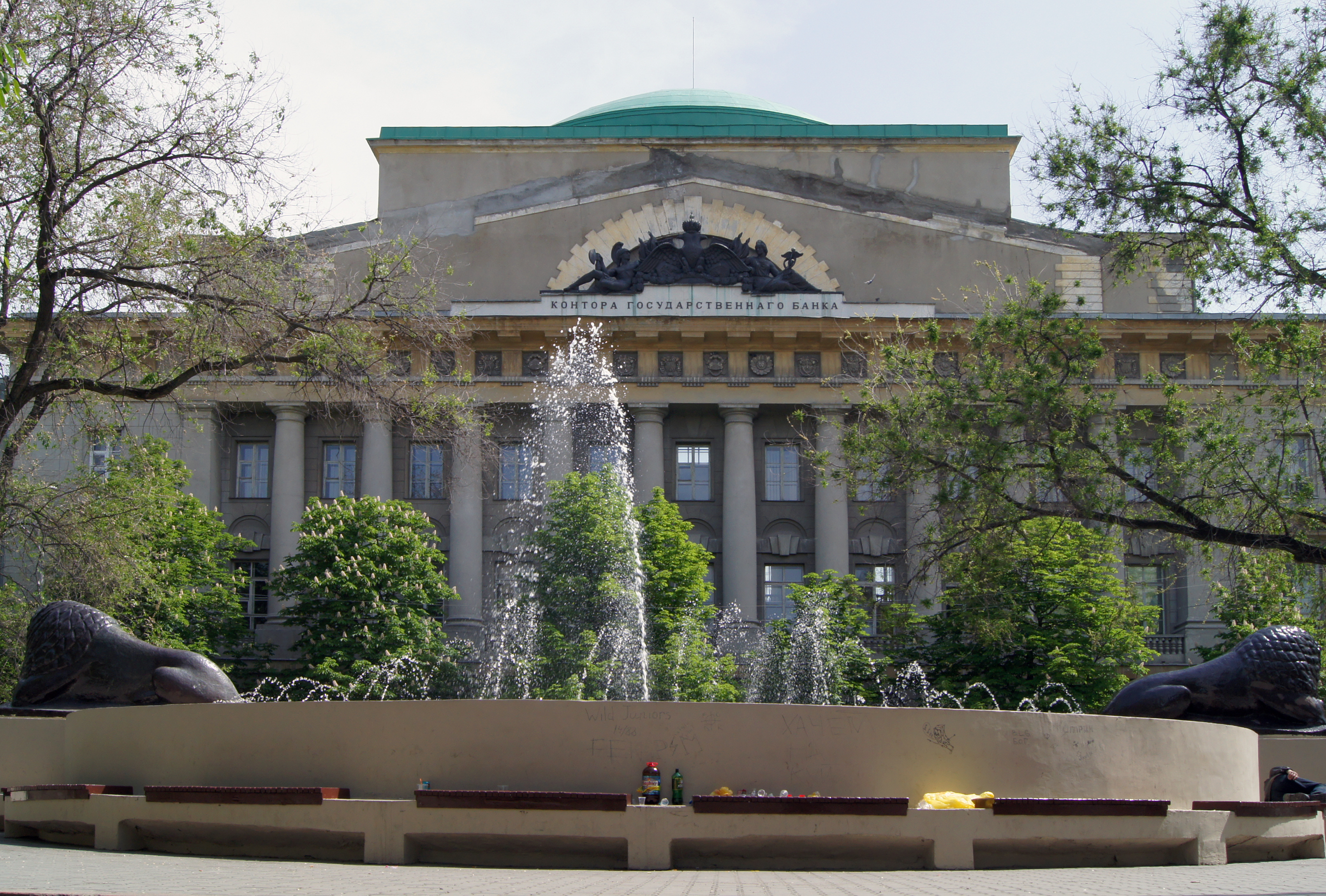 Gosbank Building (Rostov-on-Don)